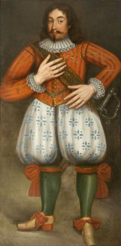 John Middleton, Childe of Hale, contemporary portrait in Speke Hall, Liverpool.